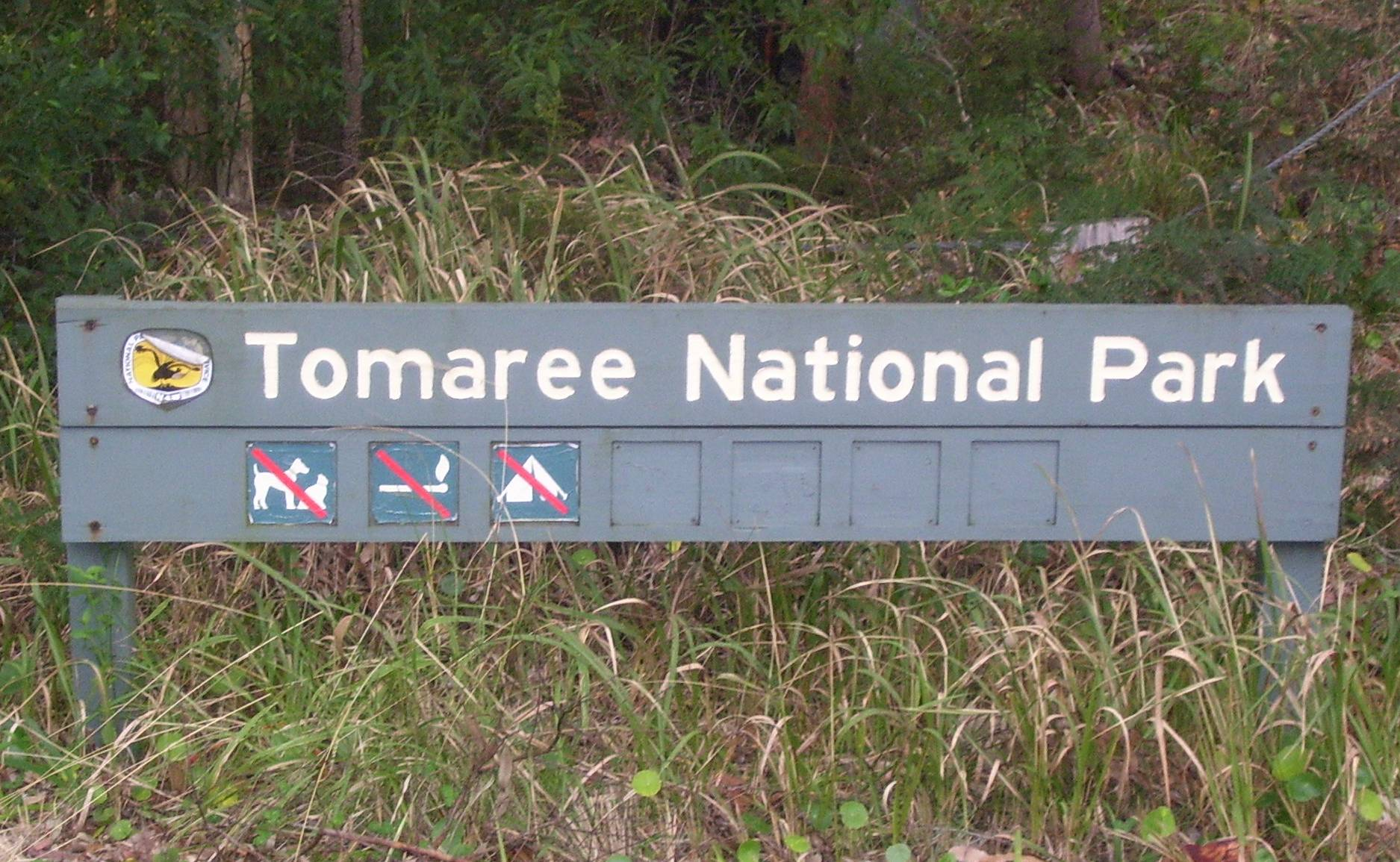 Tomaree National Park sign constructed and installed by the National Parks and Wildlife Service showing activities that are prohibited within park boundaries